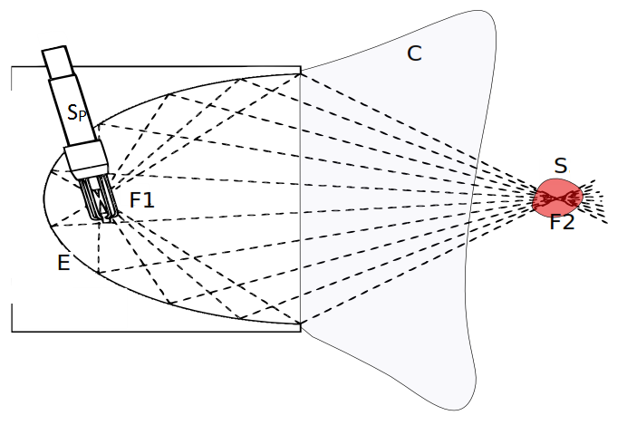 Electrohydraulic lithotripter